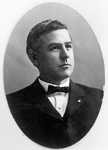 Portrait of Senator Arthur Brown of Utah